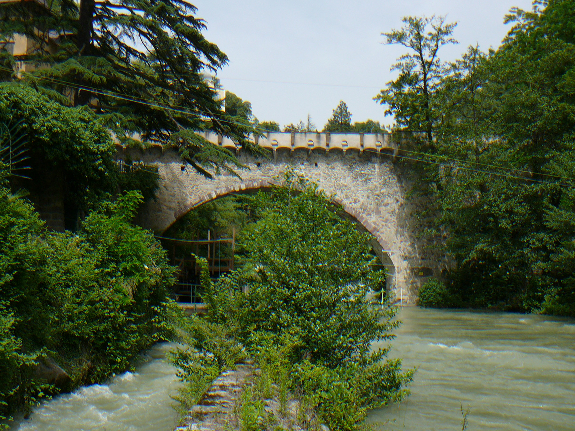 The Steinerner Steg (Stone Footbridge) over the Passer in Meran, South Tyrol. View at downstream side.